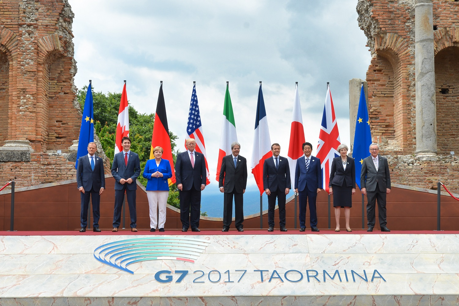 Group photo of G7 leaders at the 43rd G7 summit: Donald Tusk, Justin Trudeau, Angela Merkel, Donald Trump, Paolo Gentiloni, Emmanuel Macron, Shinzō Abe, Theresa May, Jean-Claude Juncker (from left to right)